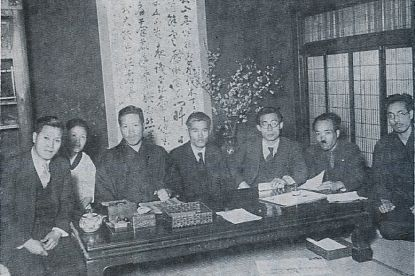 This picture is Kotora Tanahashi(1889-1973) in 1937.